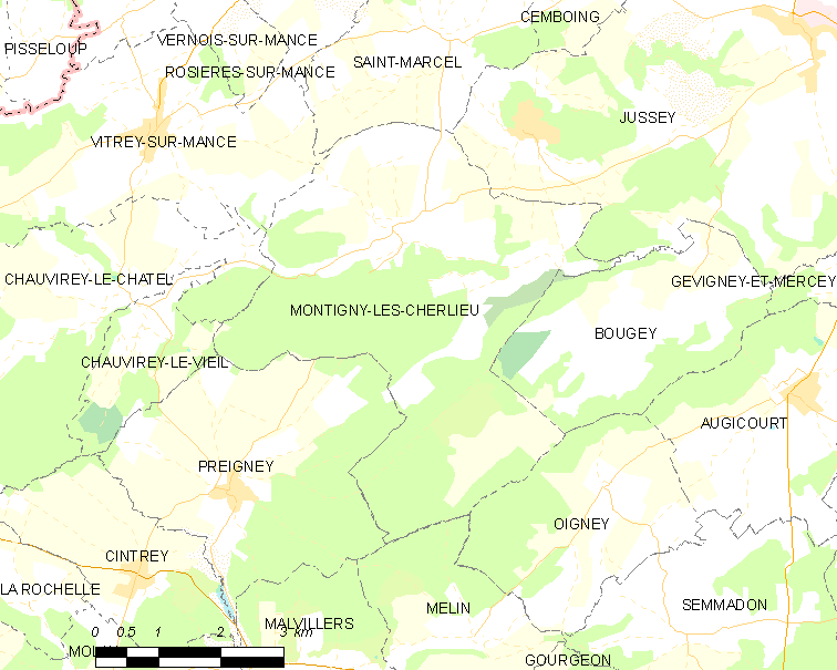 Map of French municipality